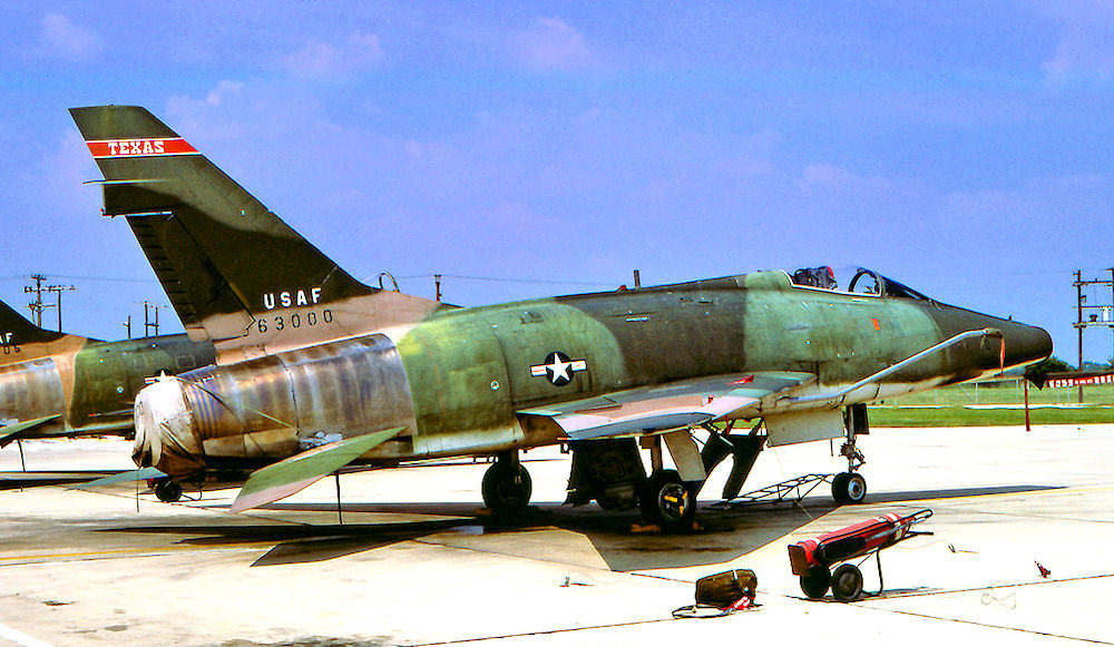 182d Tactical Fighter Squadron - North American F-100D-65-NA Super Sabre 56-3000